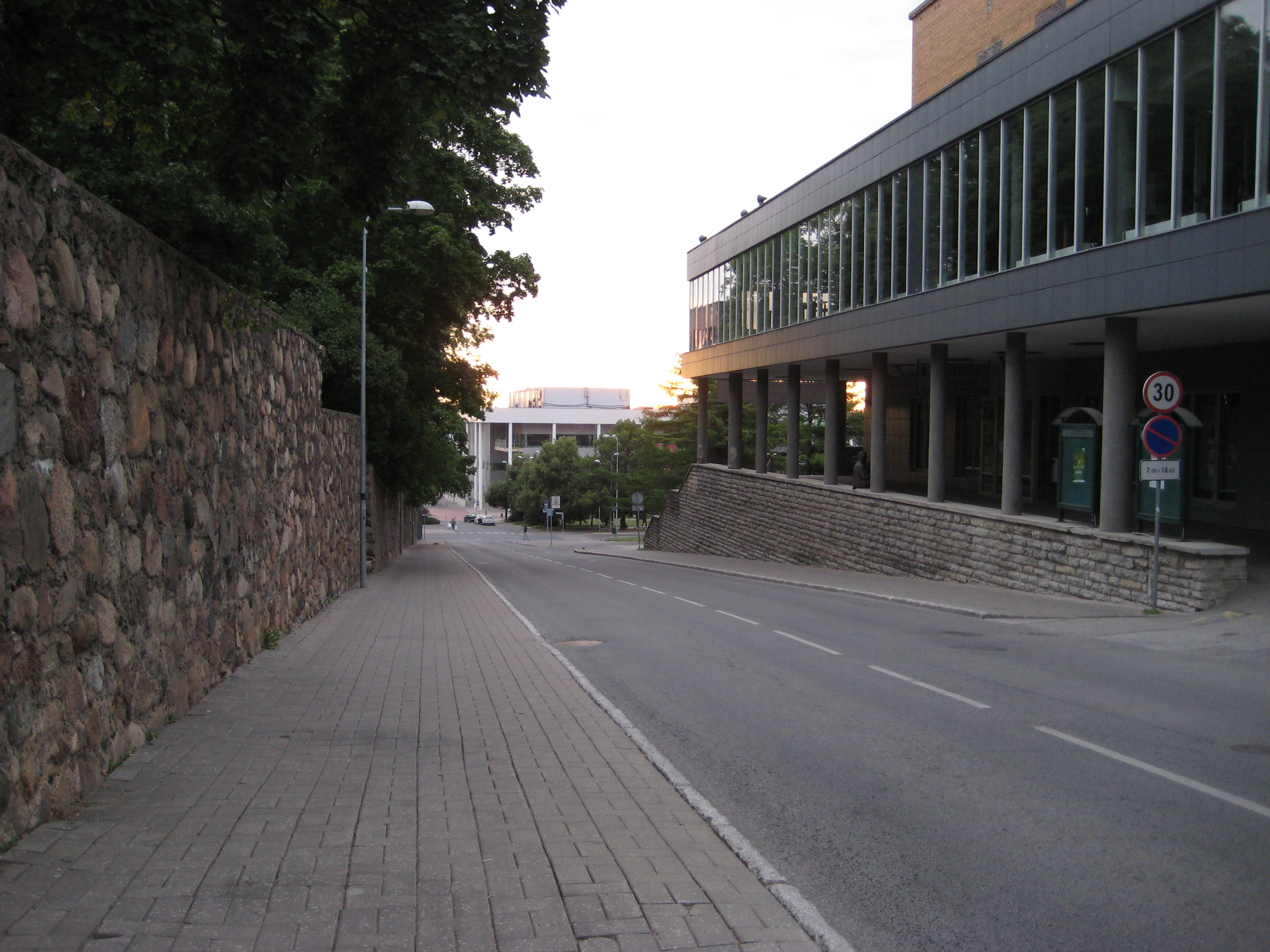 Vanemuise street